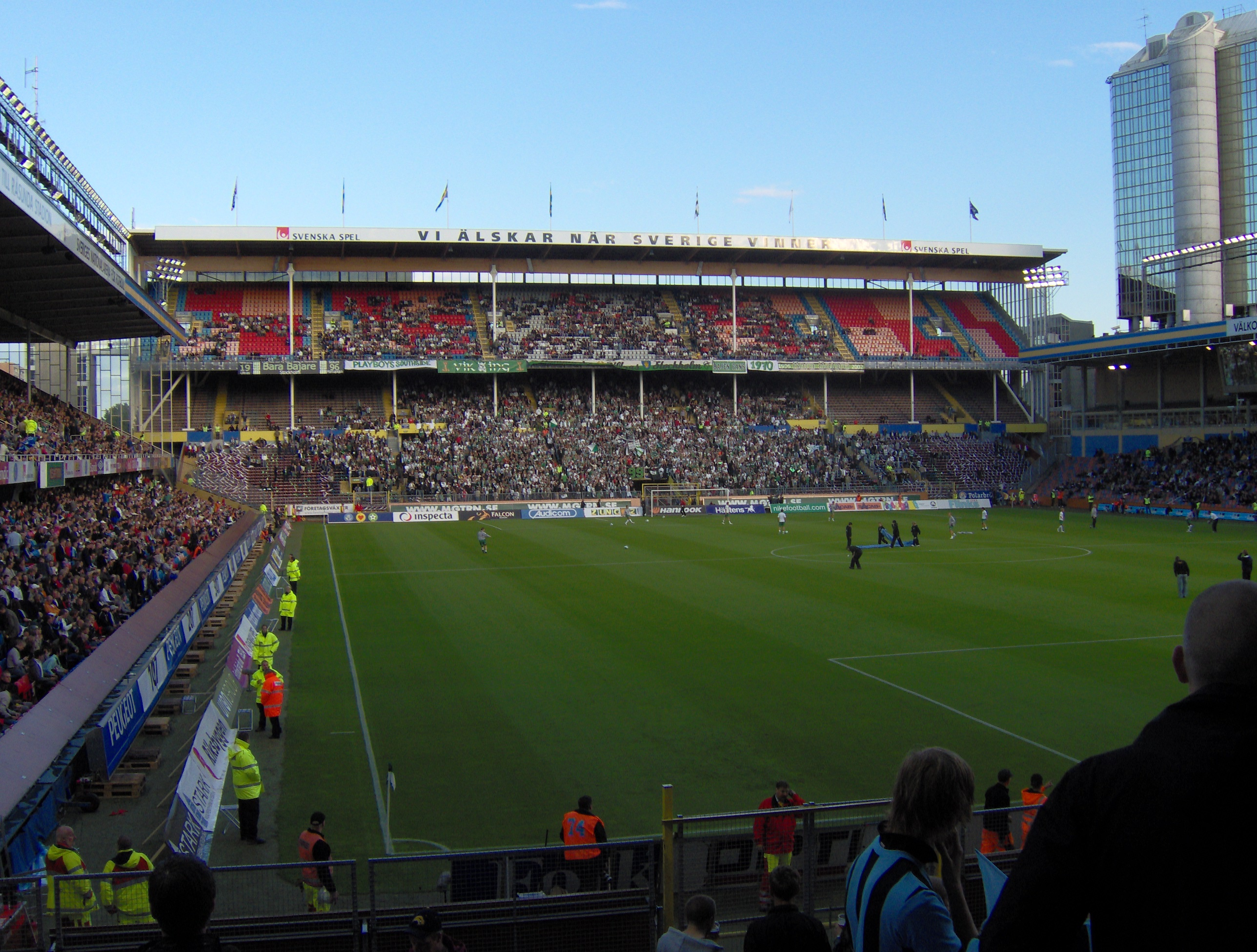 The south stand at Råsunda before the Fotbollsallsvenskan derby game between Hammarby IF and Djurgårdens IF (2-0)